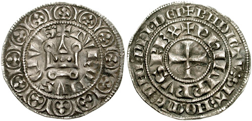 Kings of France. Philippe IV de France. 1285-1314. AR Maille Blanche (i.e. 1/2 gros tournois)(23mm, 2.03 g). Struck 1296. + BHDICTV: SIT: HOmE: DHI: nRI: DEI, + PhILIPPVS REX, cross pattée; pellet above C in legend + TVRONVS CIVIS:, châtel tournois; floral border of twelve embedded lis. Duplessy 215; Ciani 207; Roberts 2481.